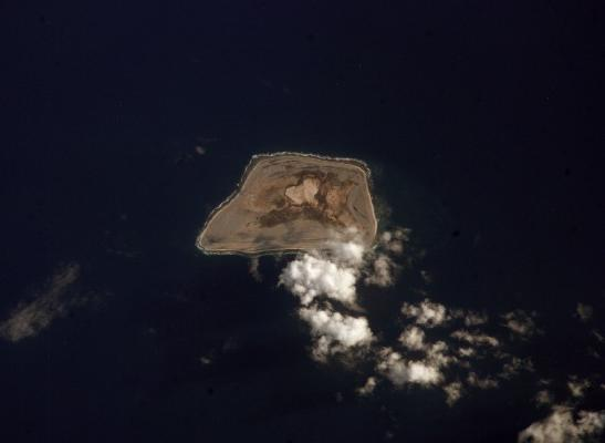 NASA astronaut image of Jarvis Island in the Pacific Ocean